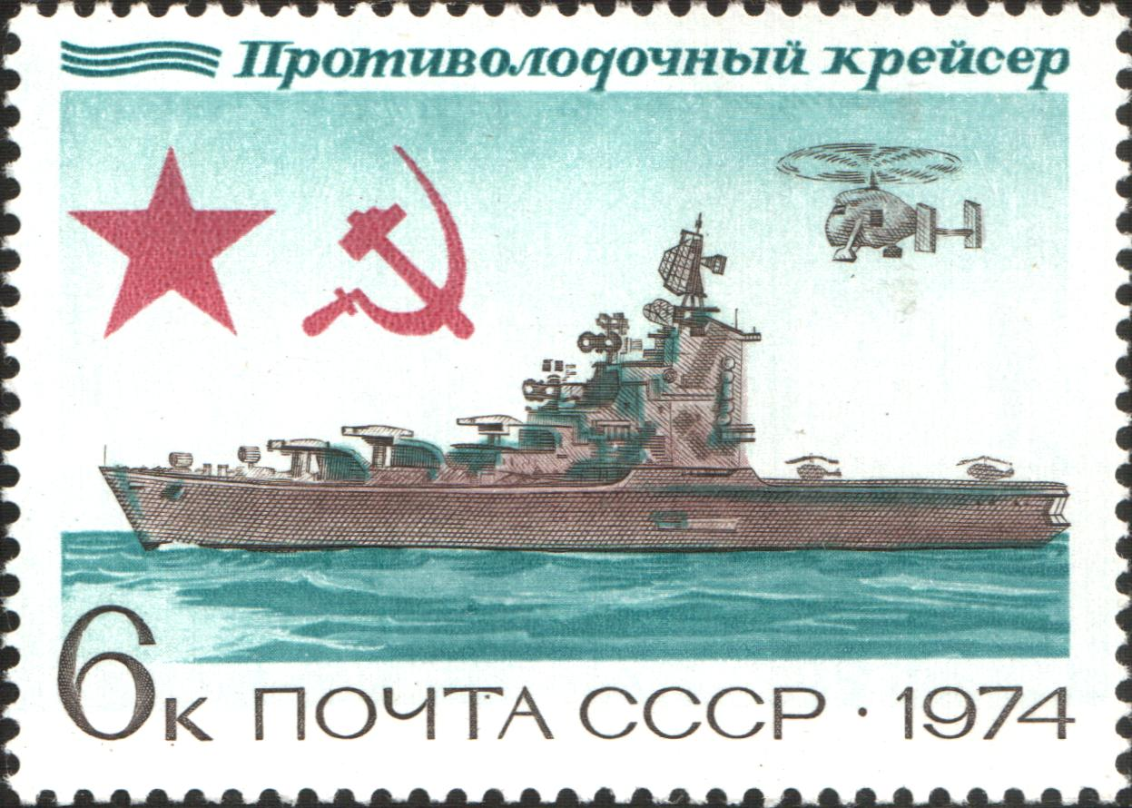 USSR stamp